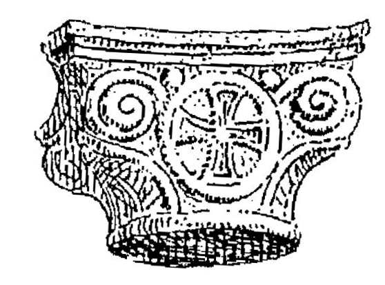 A capital from Soba, the capital of the kingdom of Alodia. It belonged to the "Mound C" church.